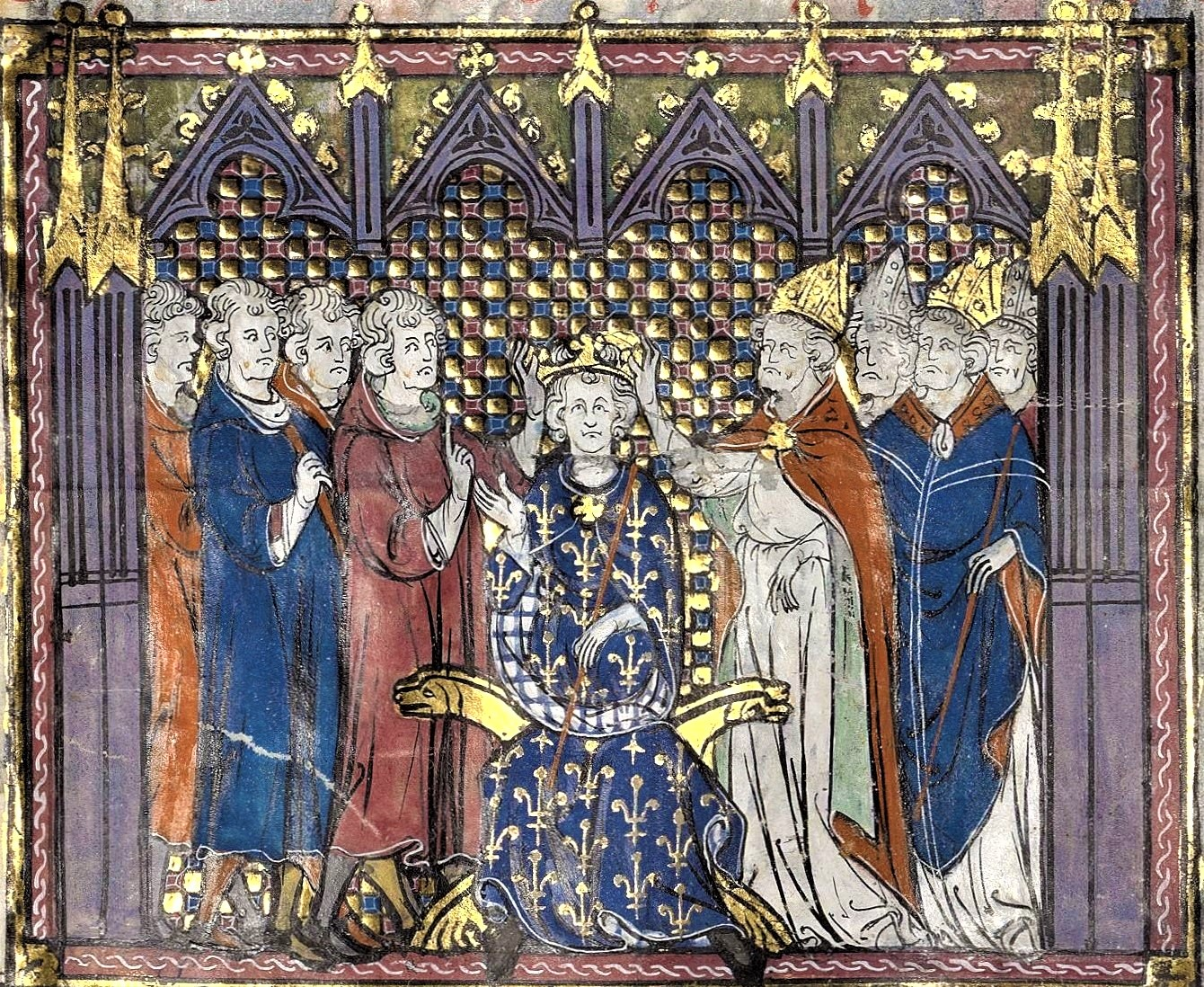 Coronation of Hugh Capet, King of France. (Bibliothèque nationale de France, Français 2615, fol. 148v)